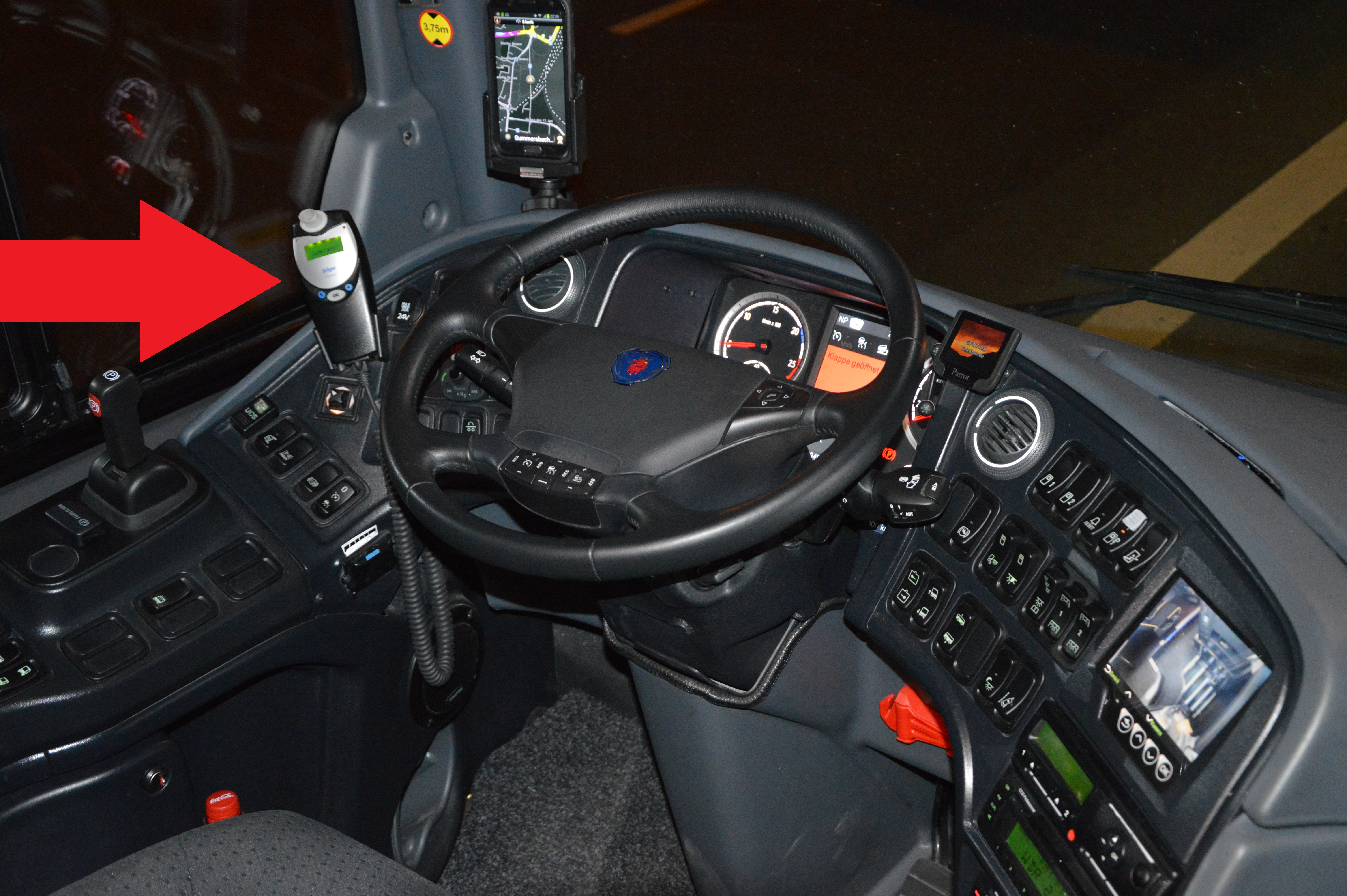 Ignition interlock device (red arrow) in a Scania bus of German long-distance bus line Postbus.